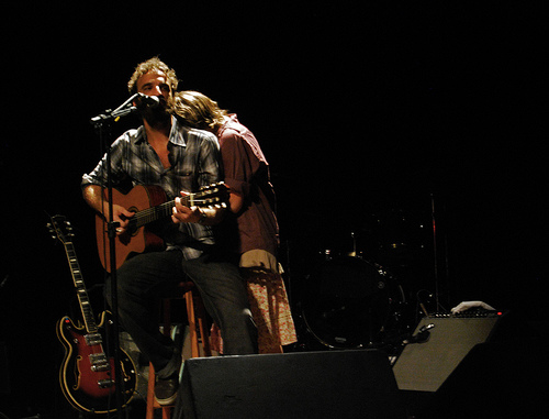 Marcelo Camelo and Mallu Magalhaes, brazillians singers @ Recife